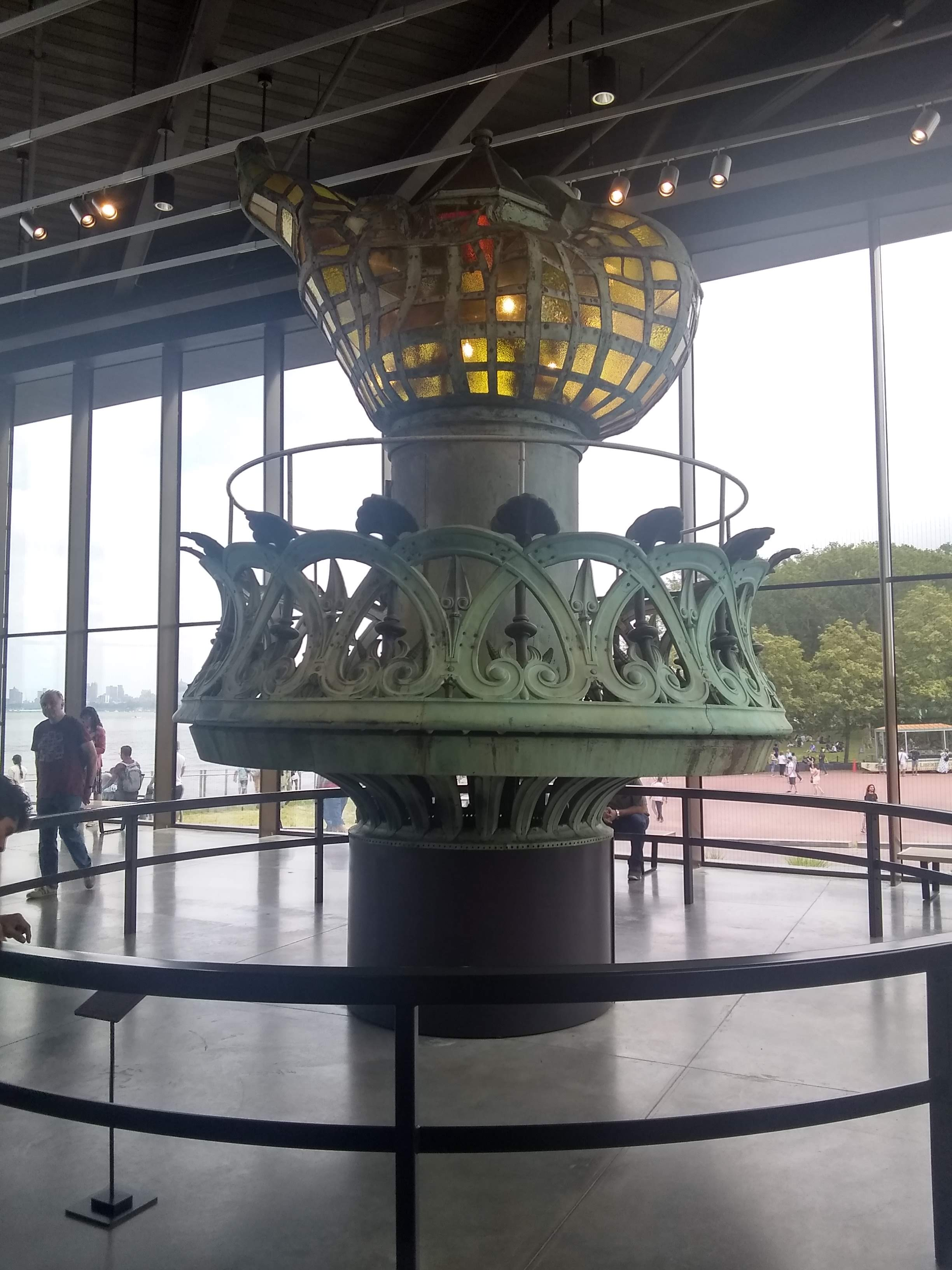 Liberty Island in New York Harbor, seen in July 2019. Statue of Liberty Museum.